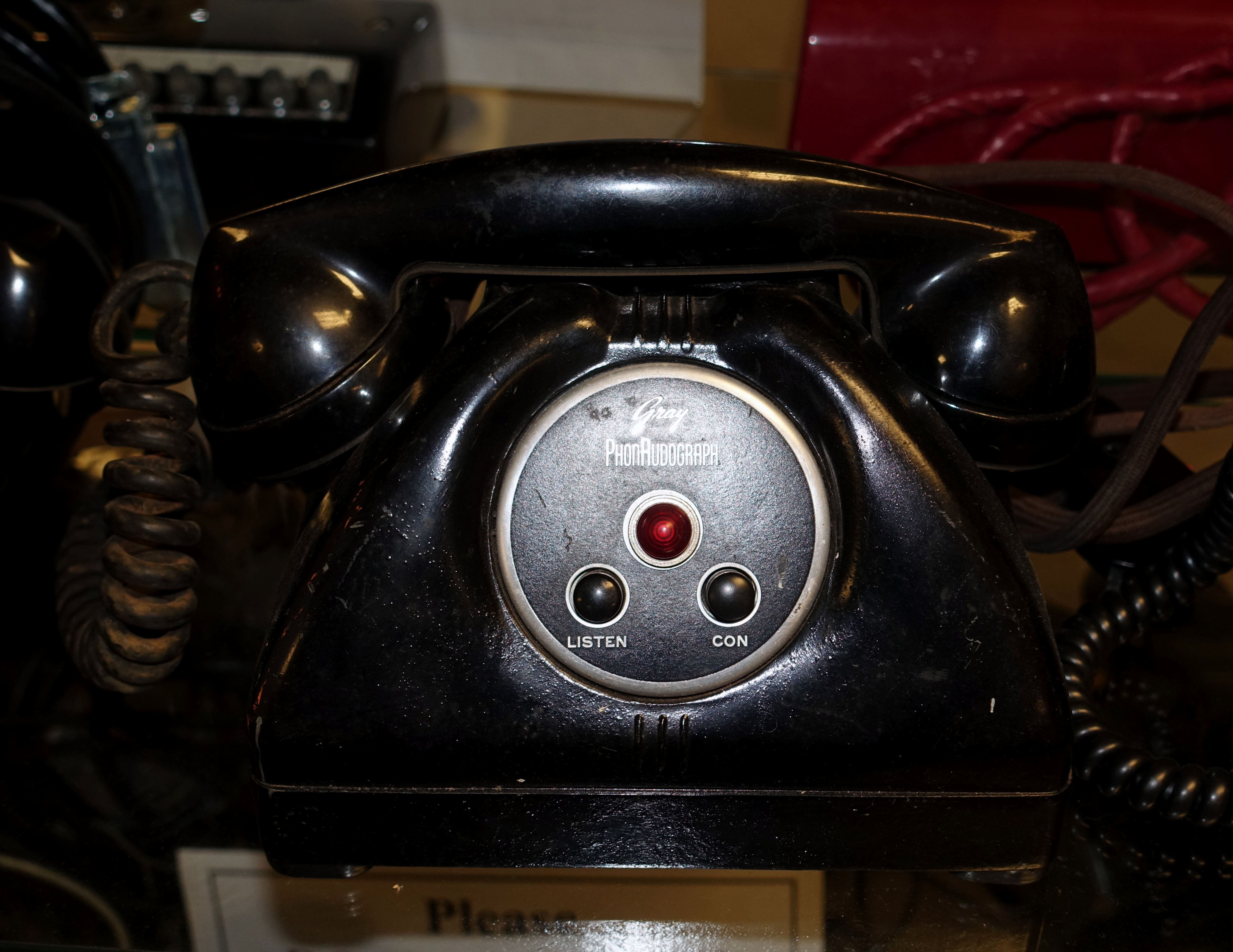 Exhibit in the Telephone Museum - Waltham, Massachusetts, USA. As a utilitarian object, this exhibit is NOT subject to copyright laws. Instead it is subject to Industrial Design Rights; see Industrial Design Right for more information. If this object was ever covered by a design patent, that patent has expired, and thus this image is in the public domain.